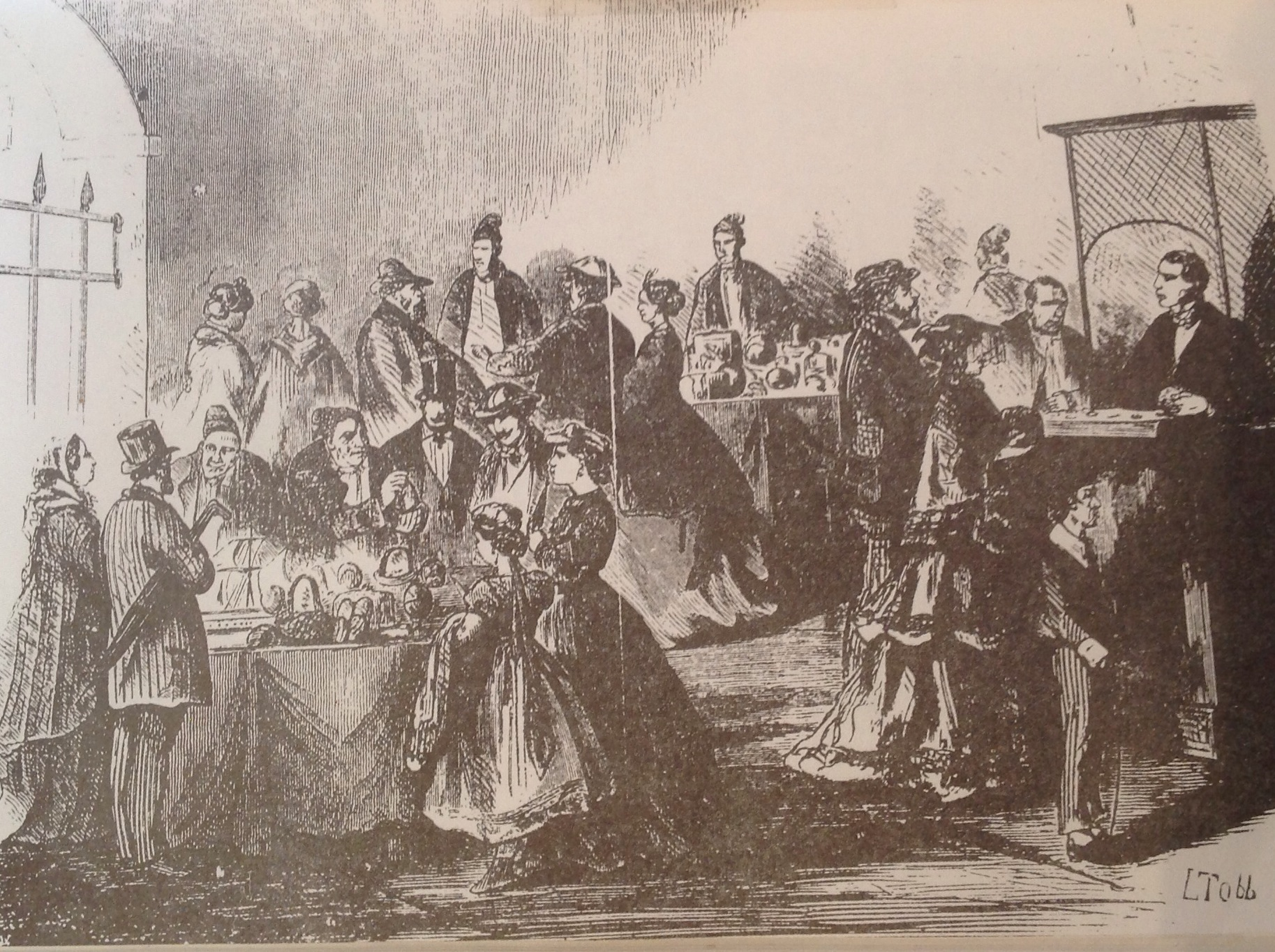 The Bazar of the Bagne of Toulon, where crafts by prisoners were sold